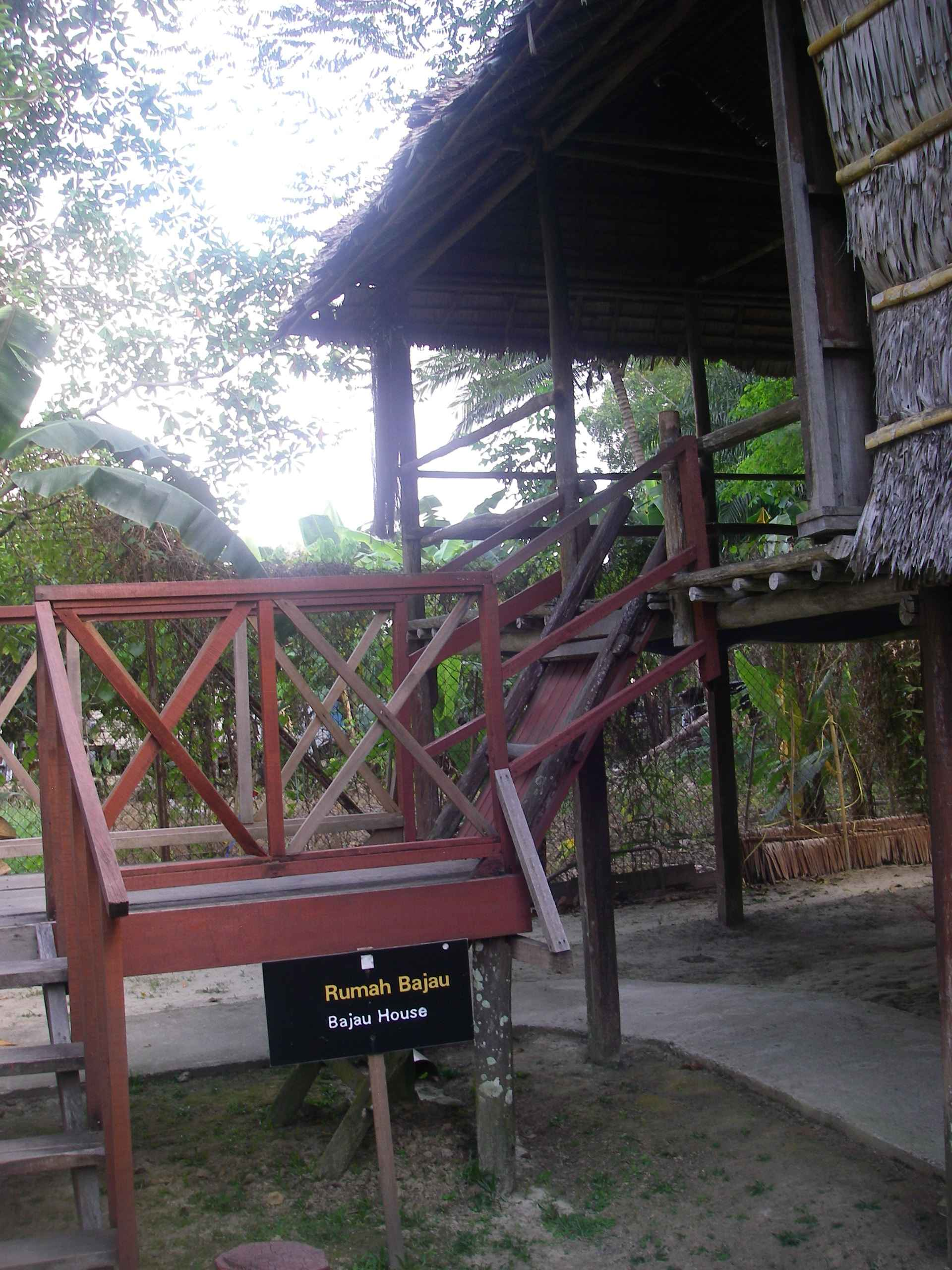 The rehabilitation of the tradional Bajau house in the Heritage Village of Kota Kinabalu, Sabah.